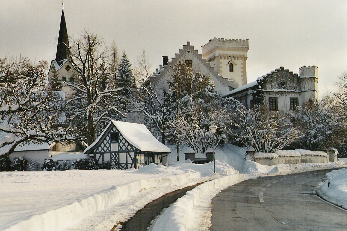 Ratzenried Castle and church tower in Rateznried, municipality of Argenbühl, Germany.